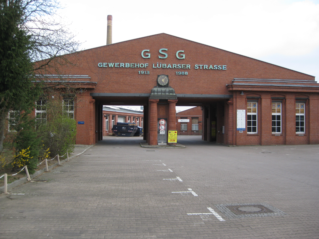 Former automobile factory F. G. Dittmann, Lübarser Straße 40/46, assembly halls